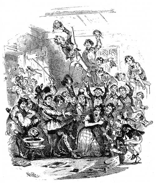 Illustration for Nicholas Nickleby by Hablot Browne